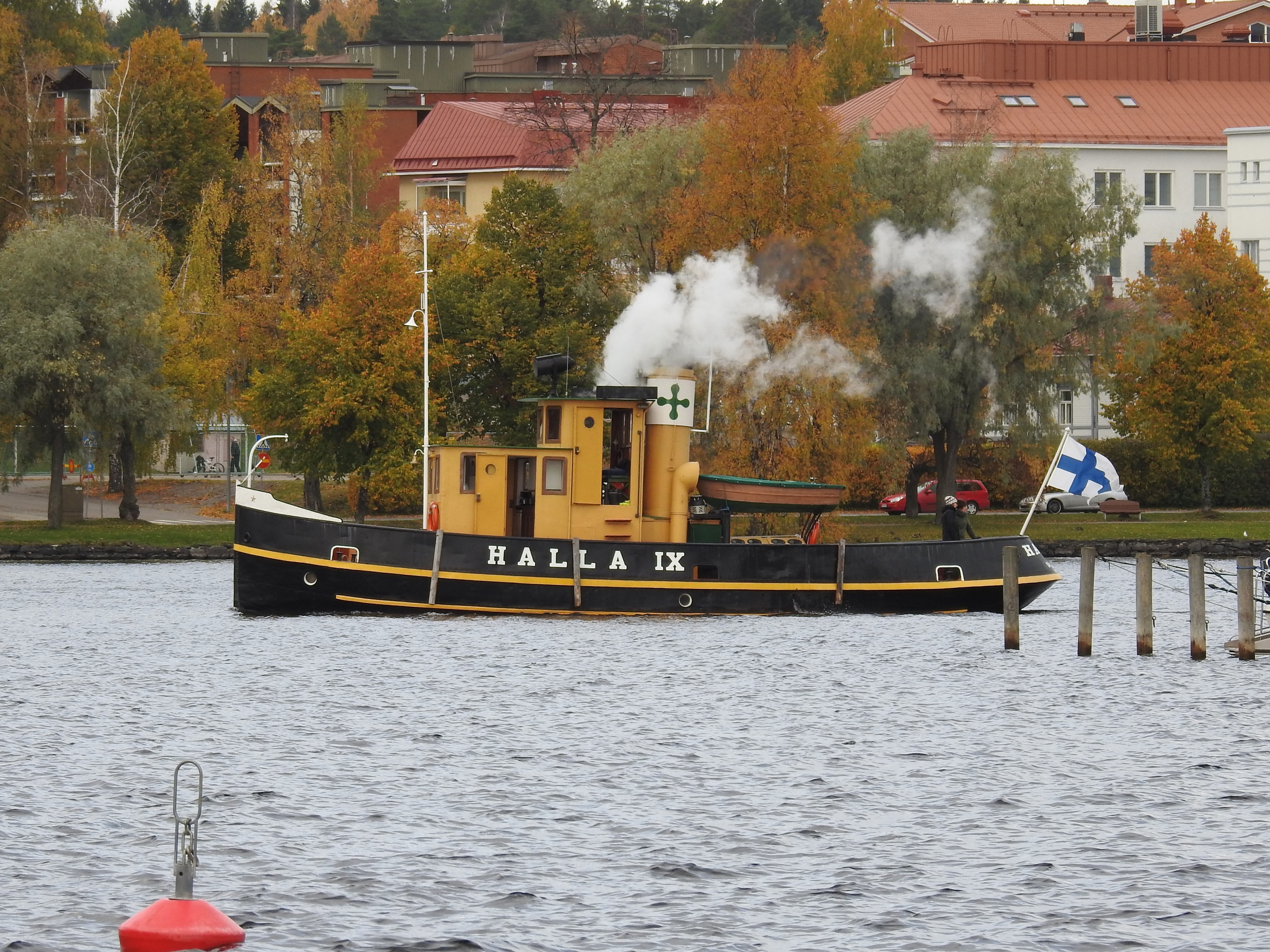 S/S Halla IX (Pihlajavesi, Karvalakkiregatta 2016)